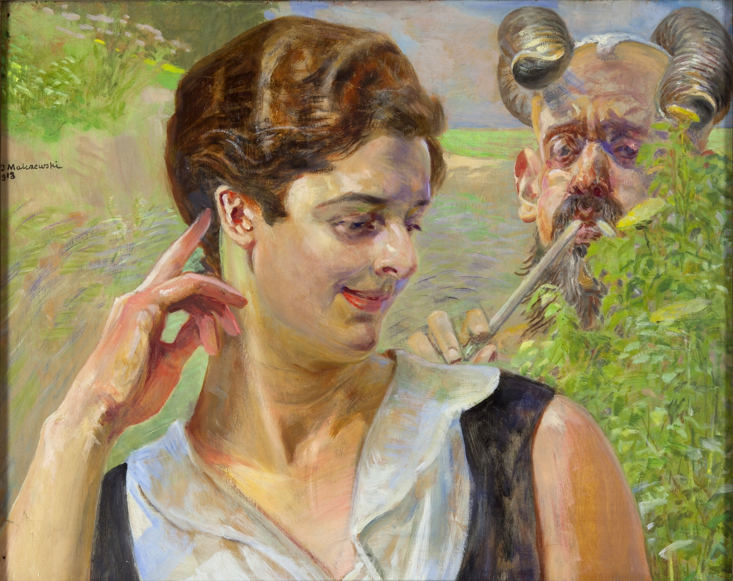 Jacek Malczewski, Woman with a Faun (1918), Jacek Malczewski Museum in Radom, Poland